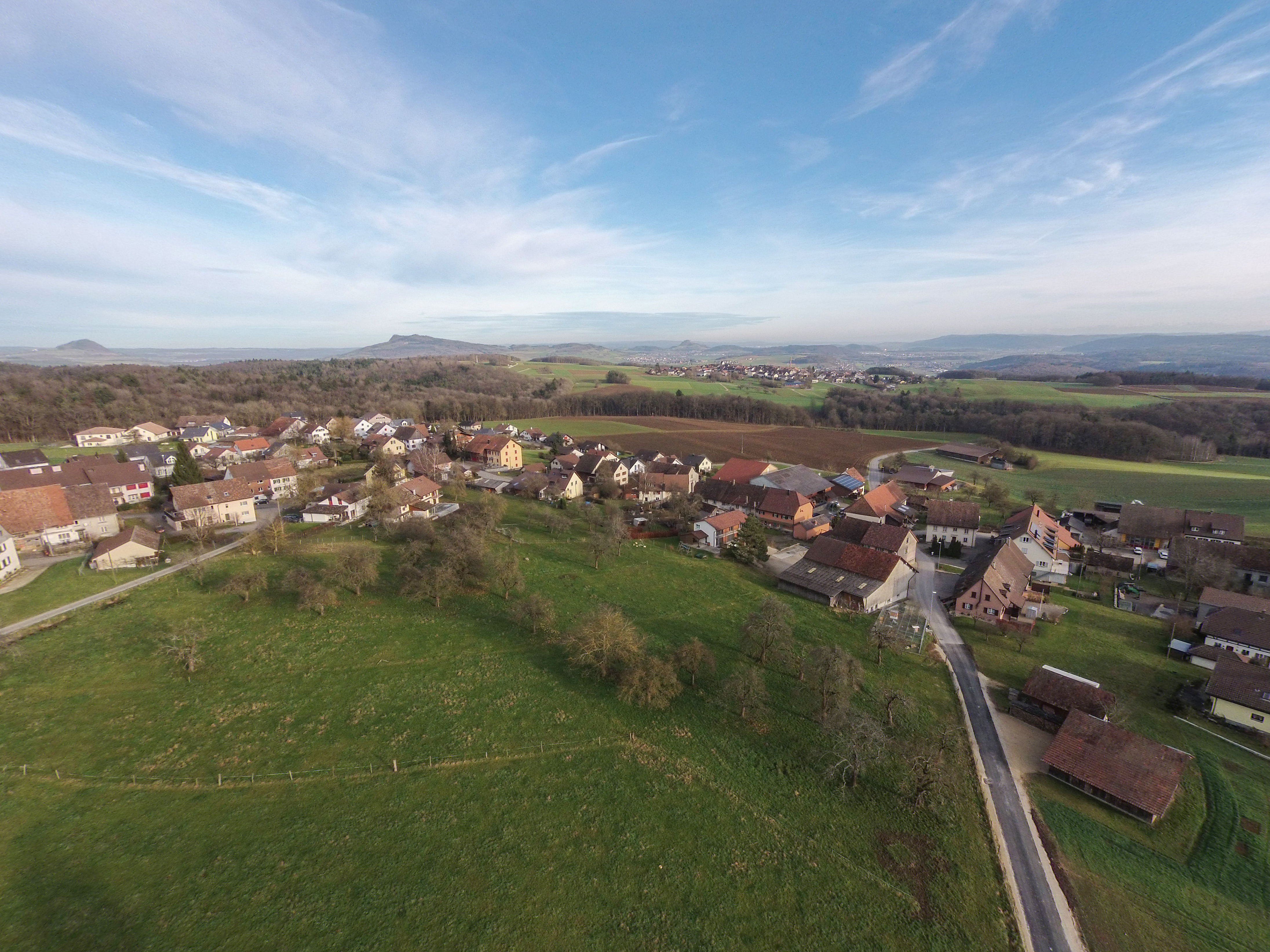 Switzerland, Canton of Schaffhausen, QC aerial picture of Büttenhardt